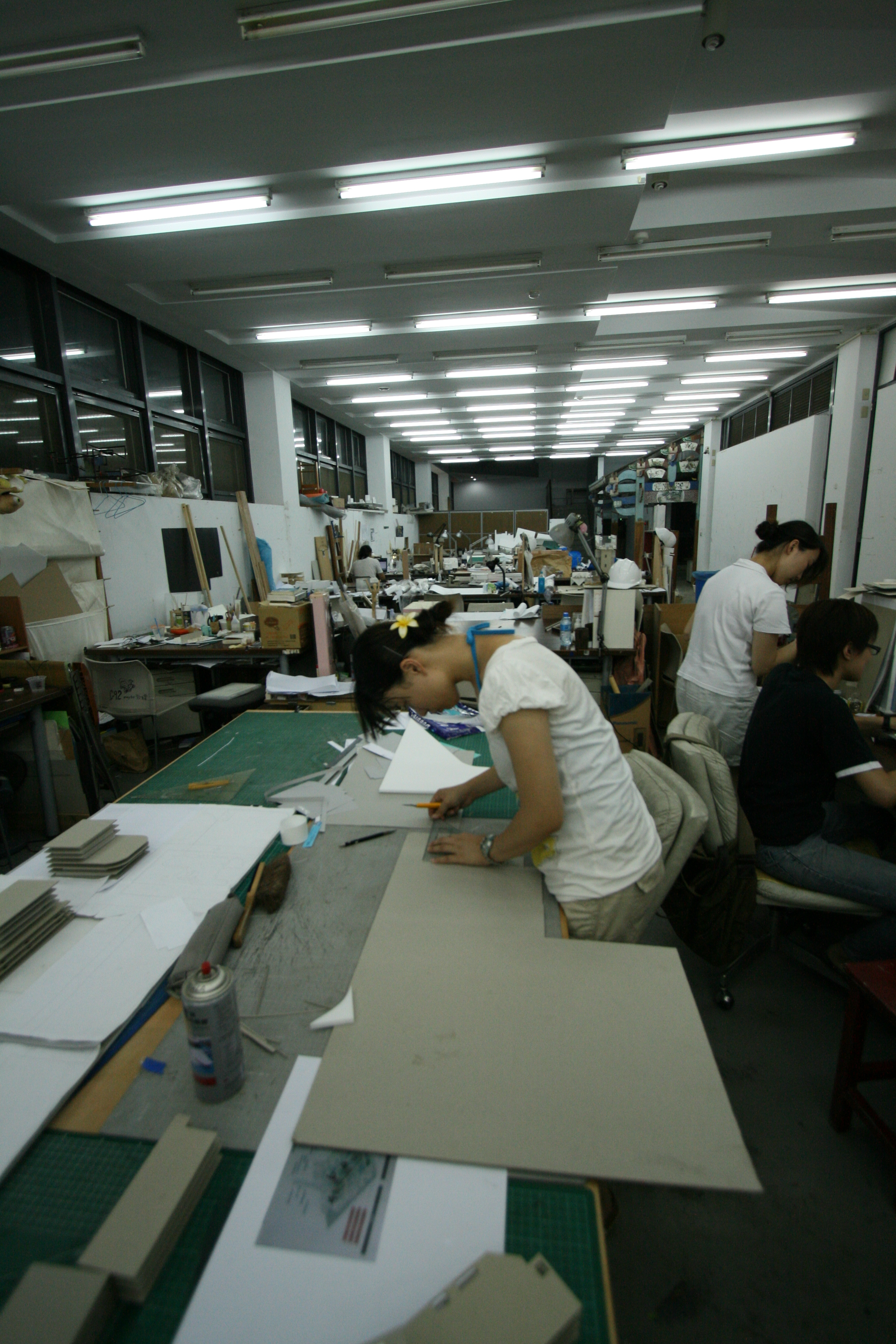 The drawing office in the Tunghai University Department of Archite in Taichung City, Taiwan.